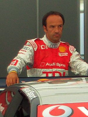 Marco Werner at the 2007 Norisring race